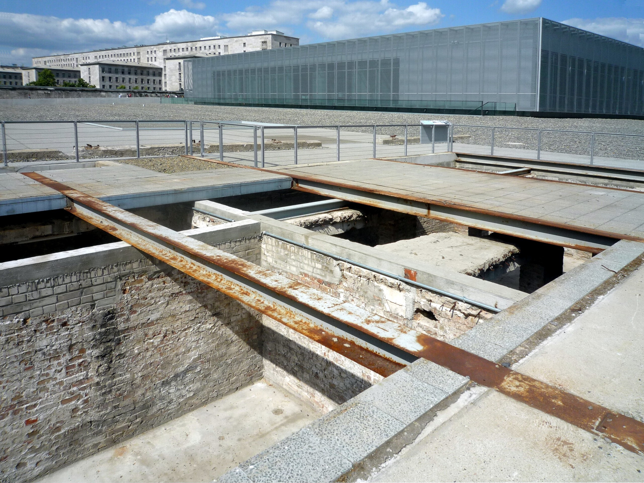 Berlin, Niederkirchnerstraße. Exhibition "Topographie des Terrors" (topography of terror). Exposed remainders of a building.